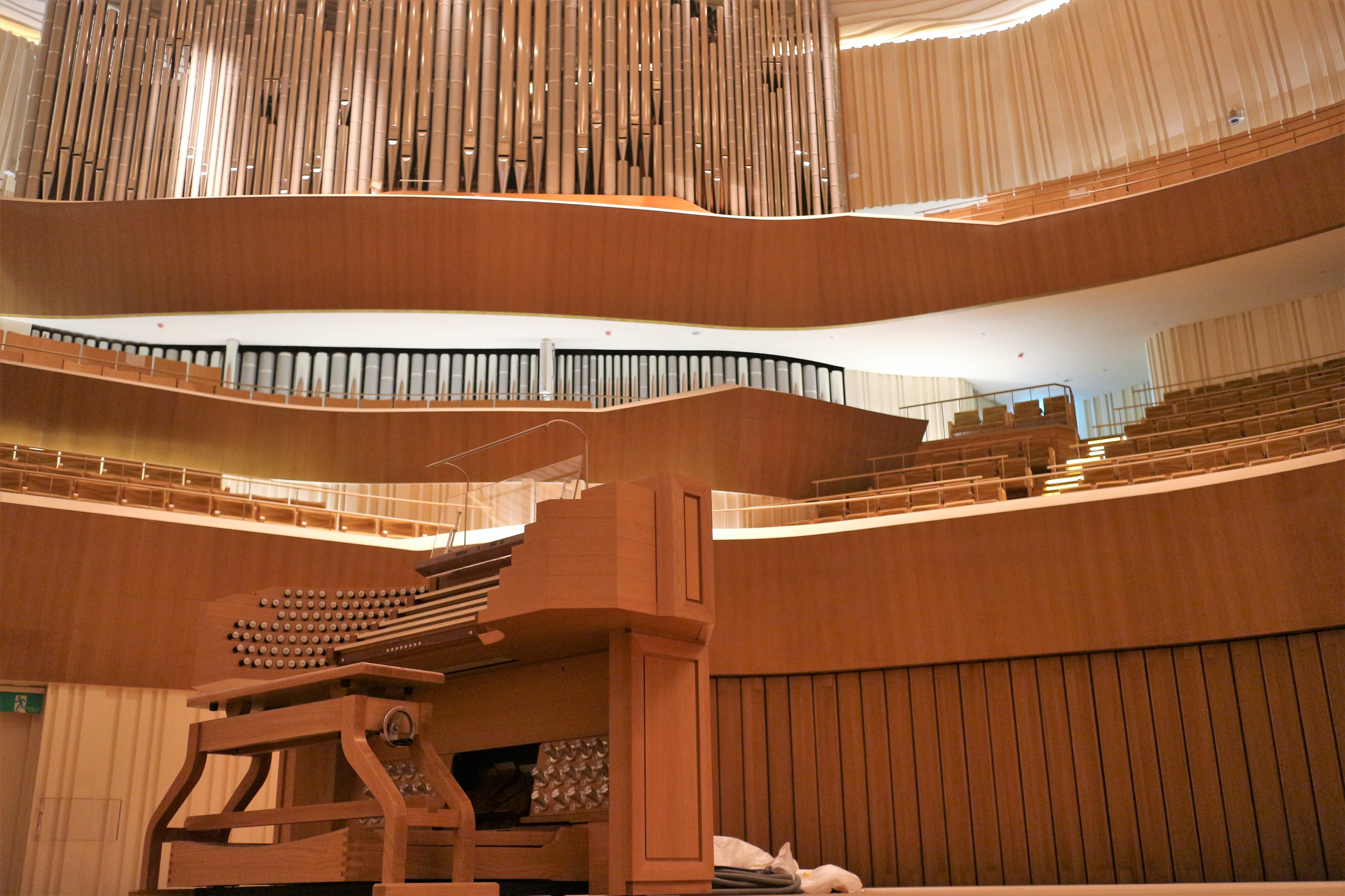 Pipe Organ of National Kaohsiung Center for the Arts (Weiwuying)